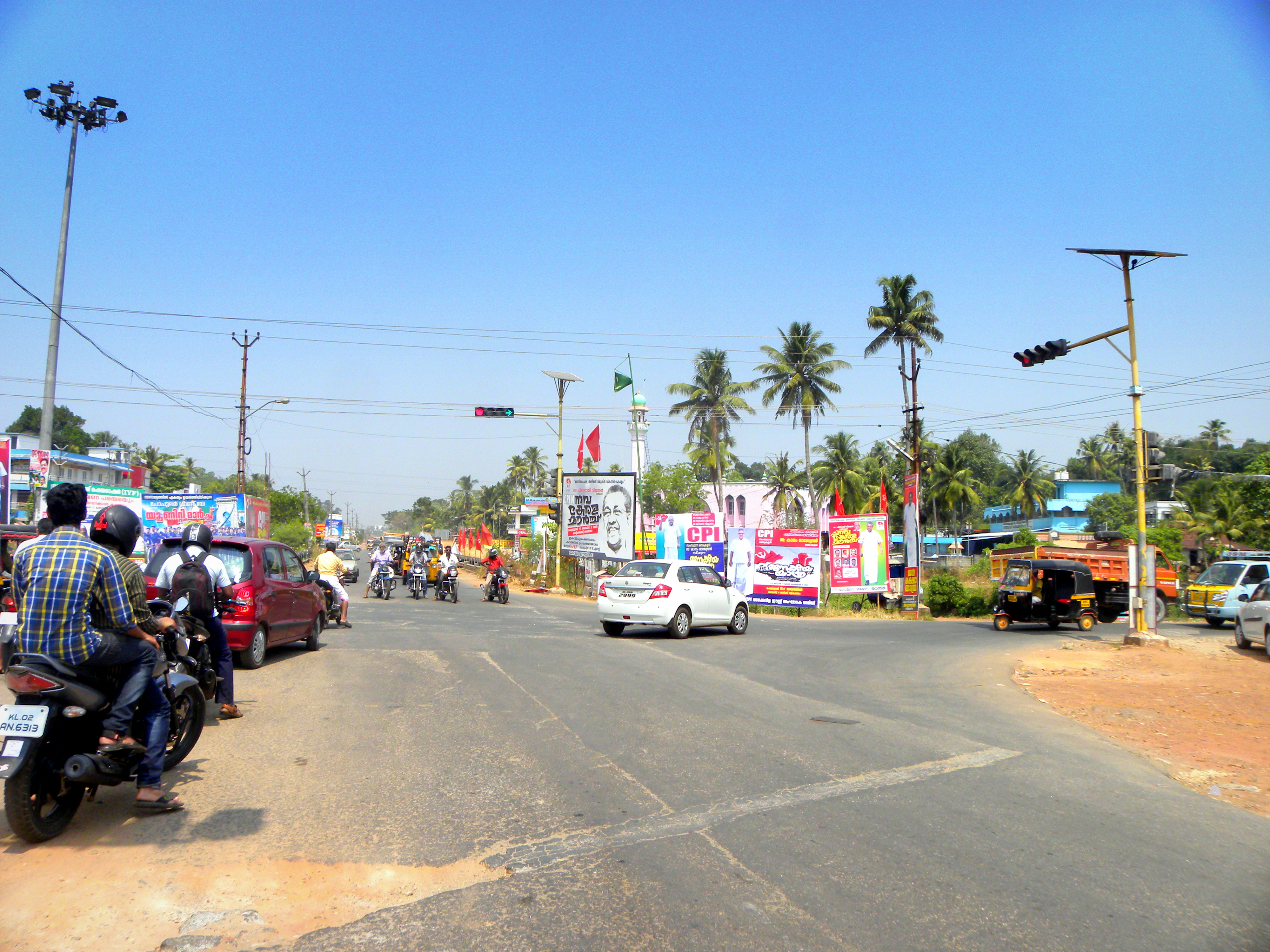 Ayathil is a major junction and neighbourhood of Kollam city corporation in Kerala, India